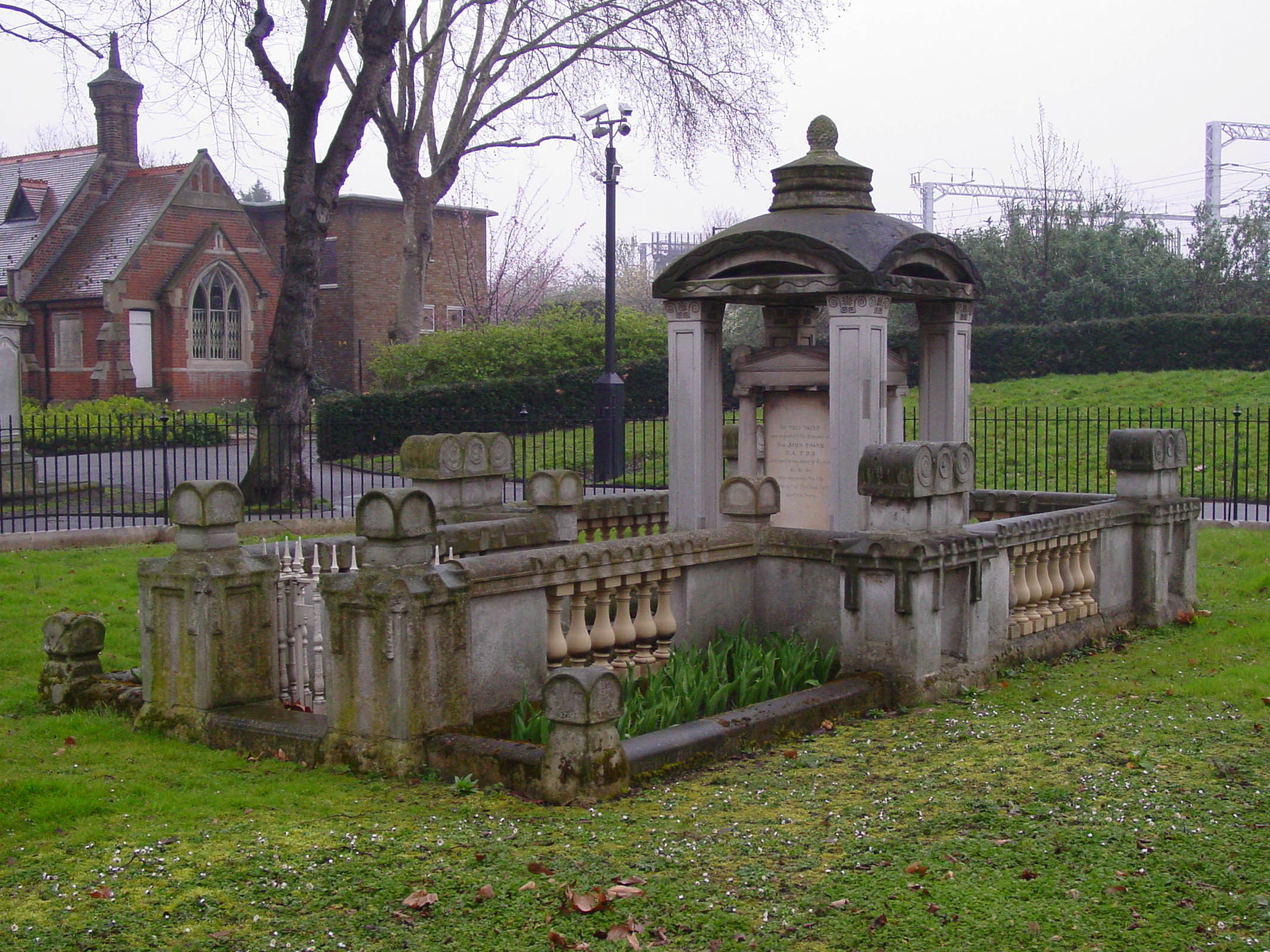 Sir John Soane's mausoleum in the churchyard of St Pancras Old Church